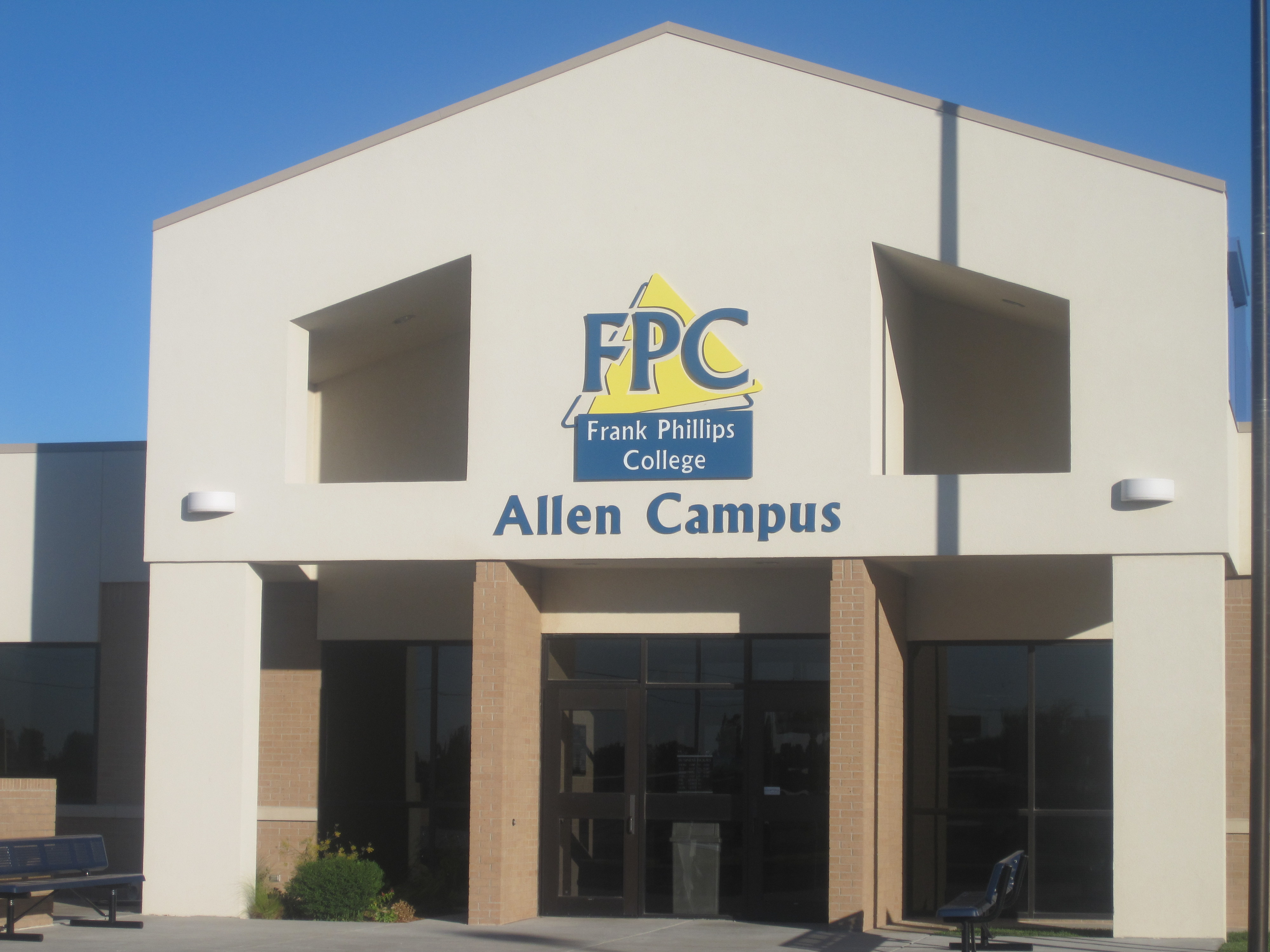 I took photo with Canon camera in Perryton, TX.